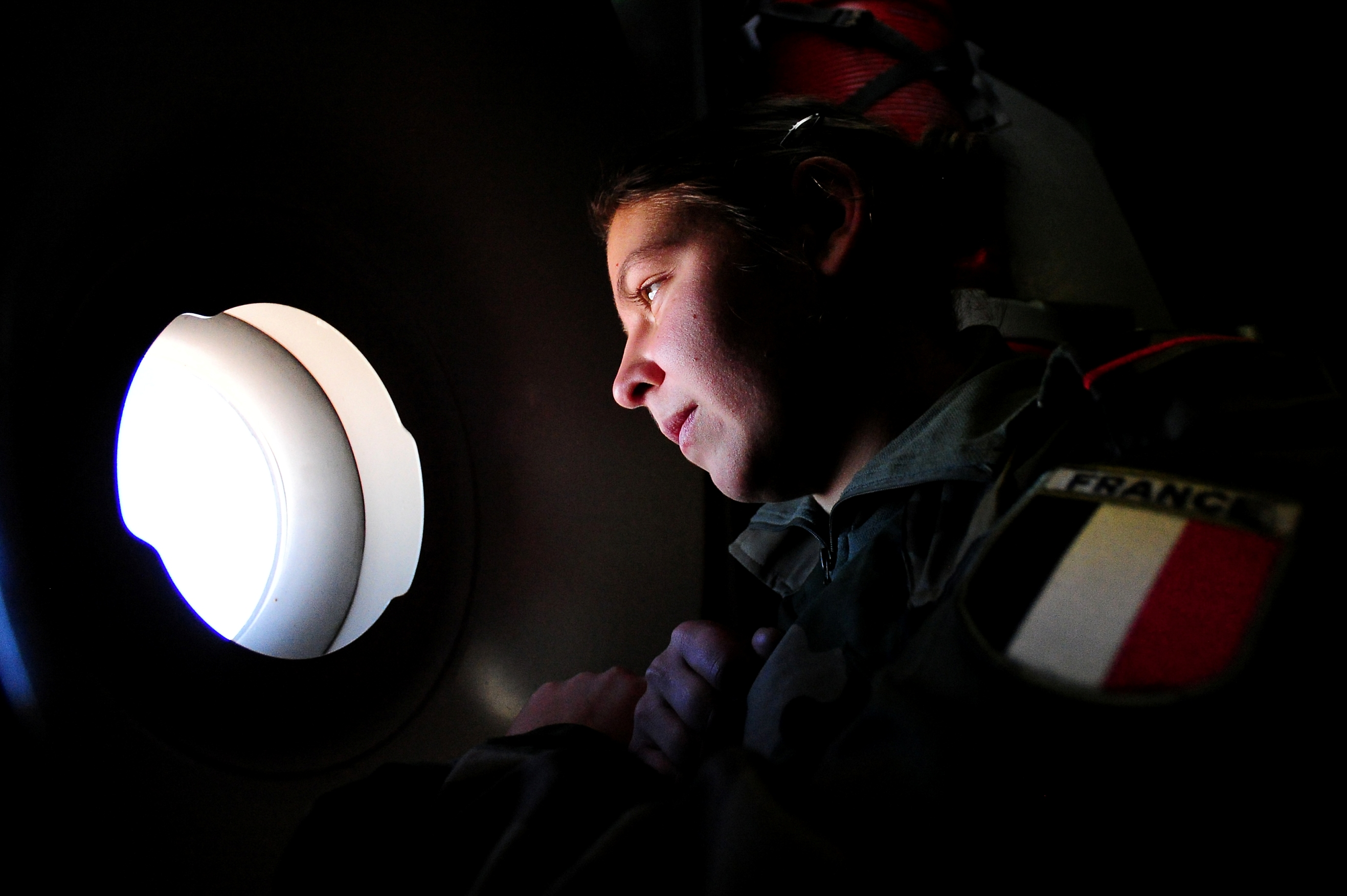 French soldier Marjorie Moreaux looks out of a window of a U.S. Air Force C-17 Globemaster III en route to Mali. The C-17 can carry up to 170,900 pounds of cargo, and can be configured for a variety of loadouts, including aeromedical evacuation, cargo transportation and passenger movement.